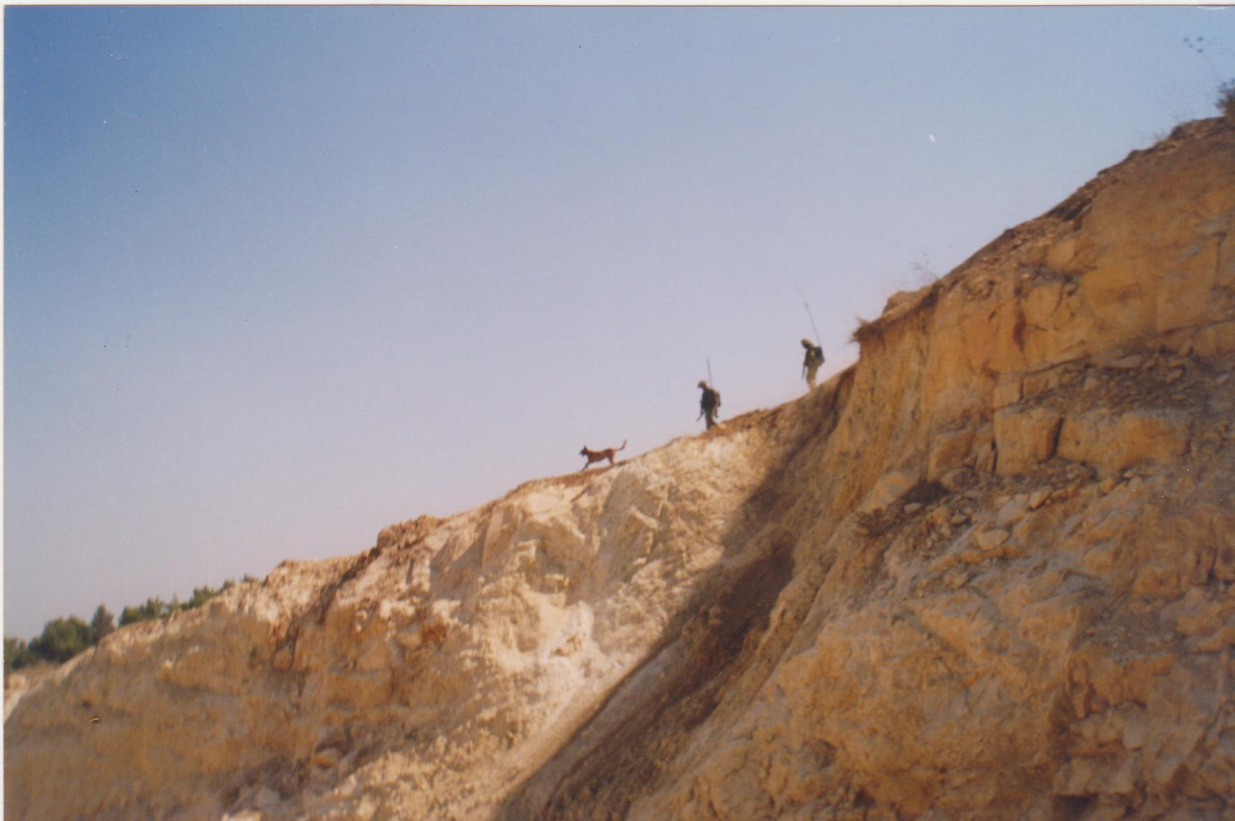 Dlaat Military post (in south lebanon) Road opening פתיחת ציר למוצב דלעת בלבנון 1999 התמונה צולמה על יד מתי פרידמן